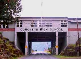 Concrete High School, Concrete, Washington